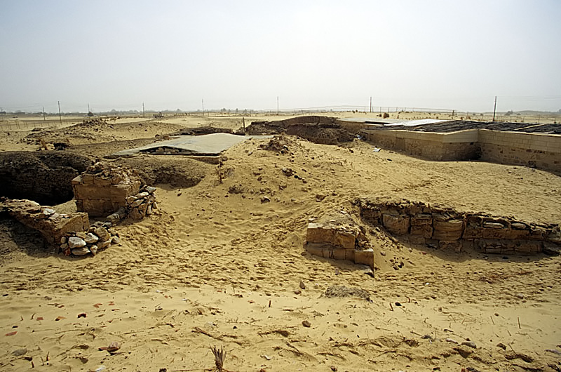 Chapels at 'Ain el-Muftilla, el-Bahriya depression, Libyan desert, Egypt